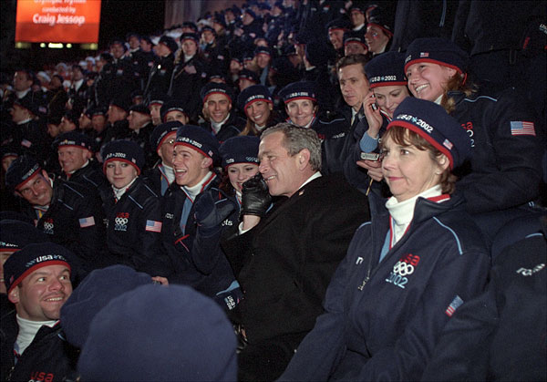 Taking a phone call from an athlete's family, President George W. Bush sits with America's Olympic athletes during the opening ceremonies for the 2002 Winter Olympic Games in Salt Lake City, Utah.